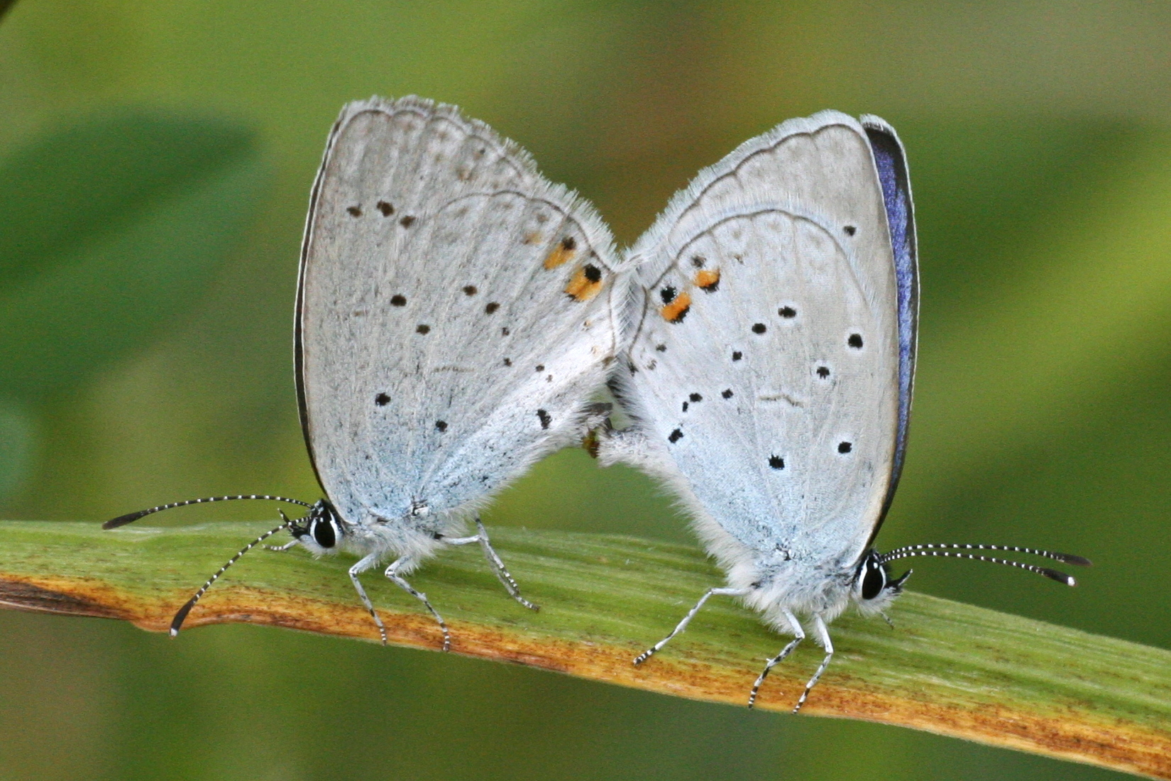 A couple of the short-tailed blue butterfly (Cupido argiades), photographed in Weinsberg